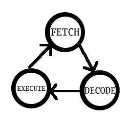 Diagram of Von Neumann fetch execute cycle.